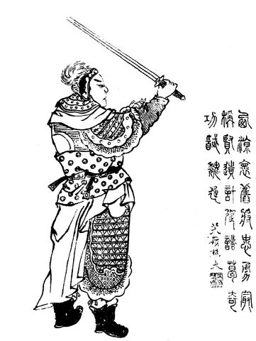 A Qing dynasty portrait of Ma Dai